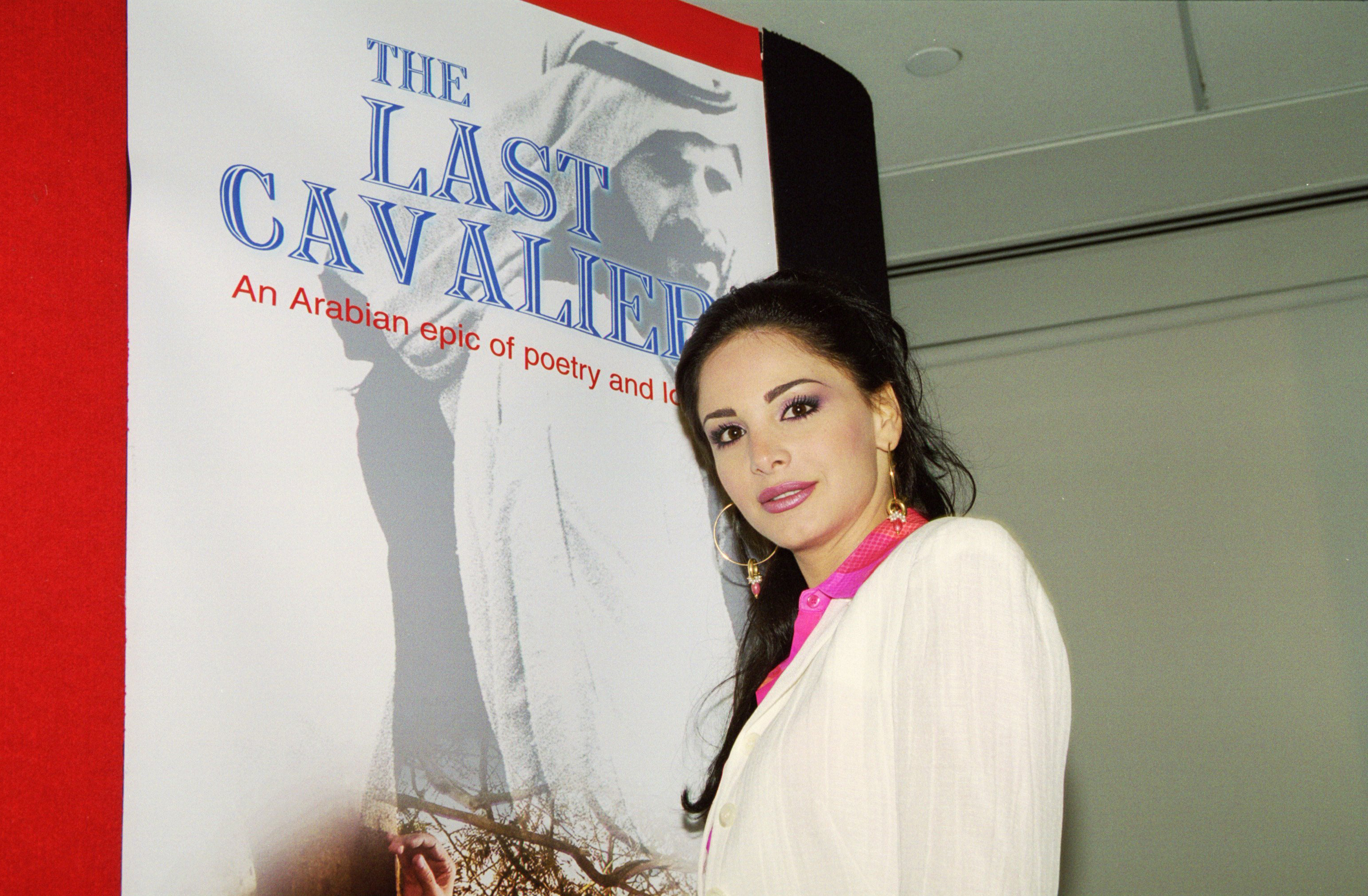 JOELLE BEHLOK - Miss Lebanon 1997 - Lebanese Actress in the Drama series as the lead female role - Princess Shaima - in the Drama series "The Last Cavalier"